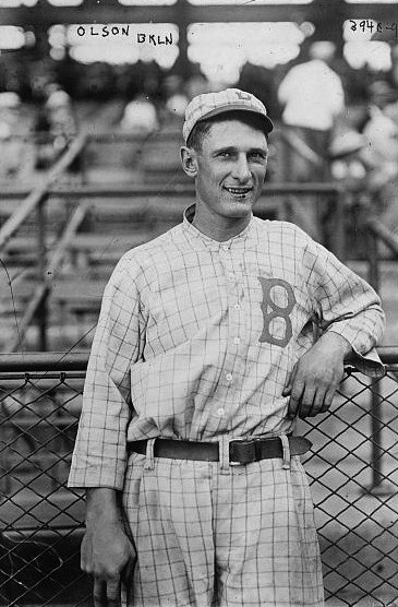 Ivan Massie Olson, Brooklyn baseball player, half-length portrait, standing, facing front, wearing baseball uniform Photo courtesy of the Library of Congress.